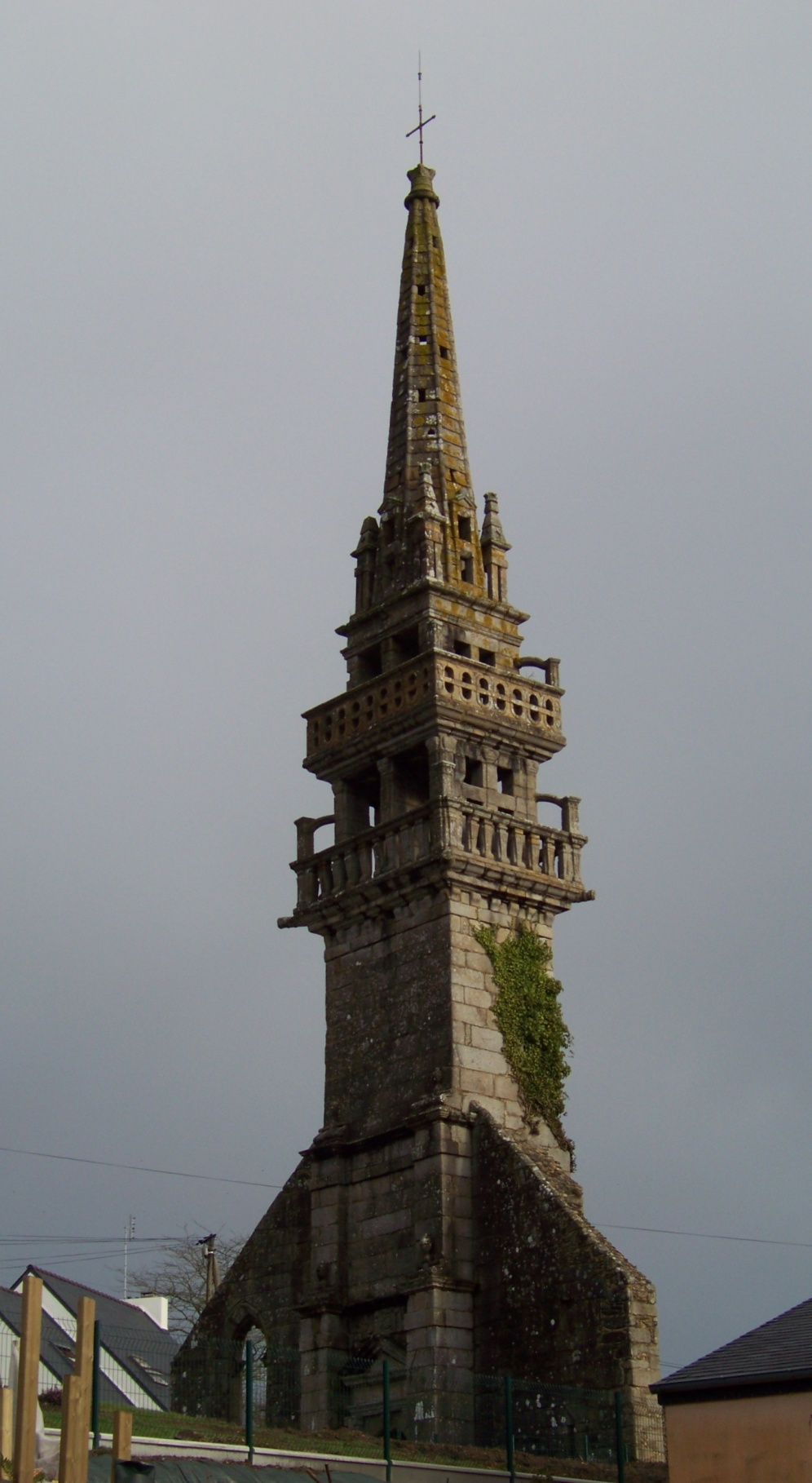 Ruins of Beuzit Konogan parish church, Landerneau, Finistère, Brittany .